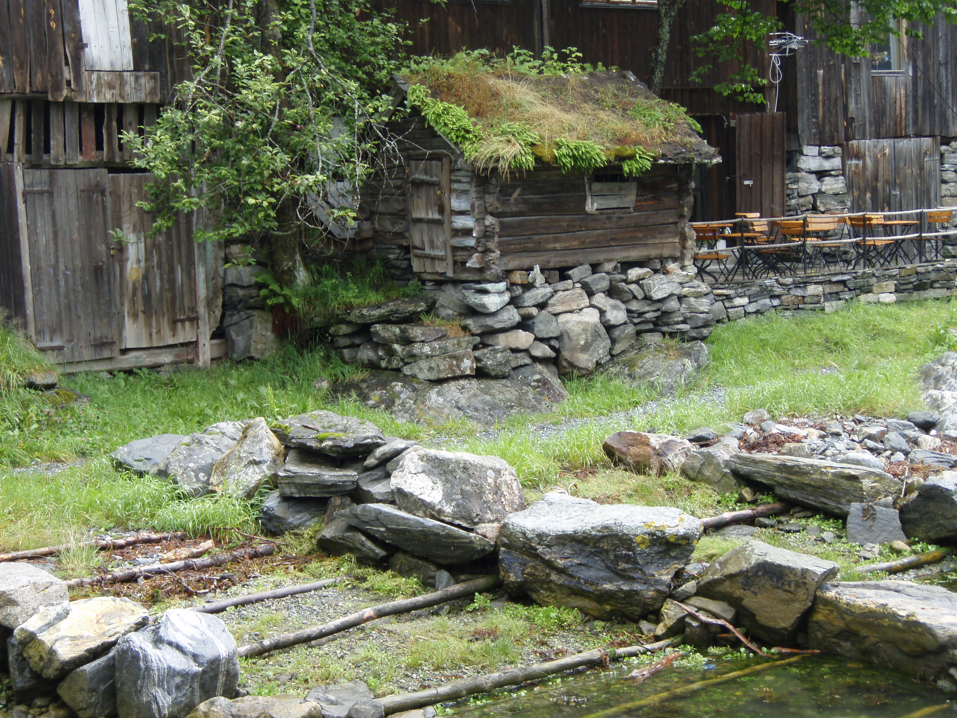 old tracks for pulling up small boats by hand and old little timberhouse, recirkulated of materials from earlier buildings - Geiranger,Norway